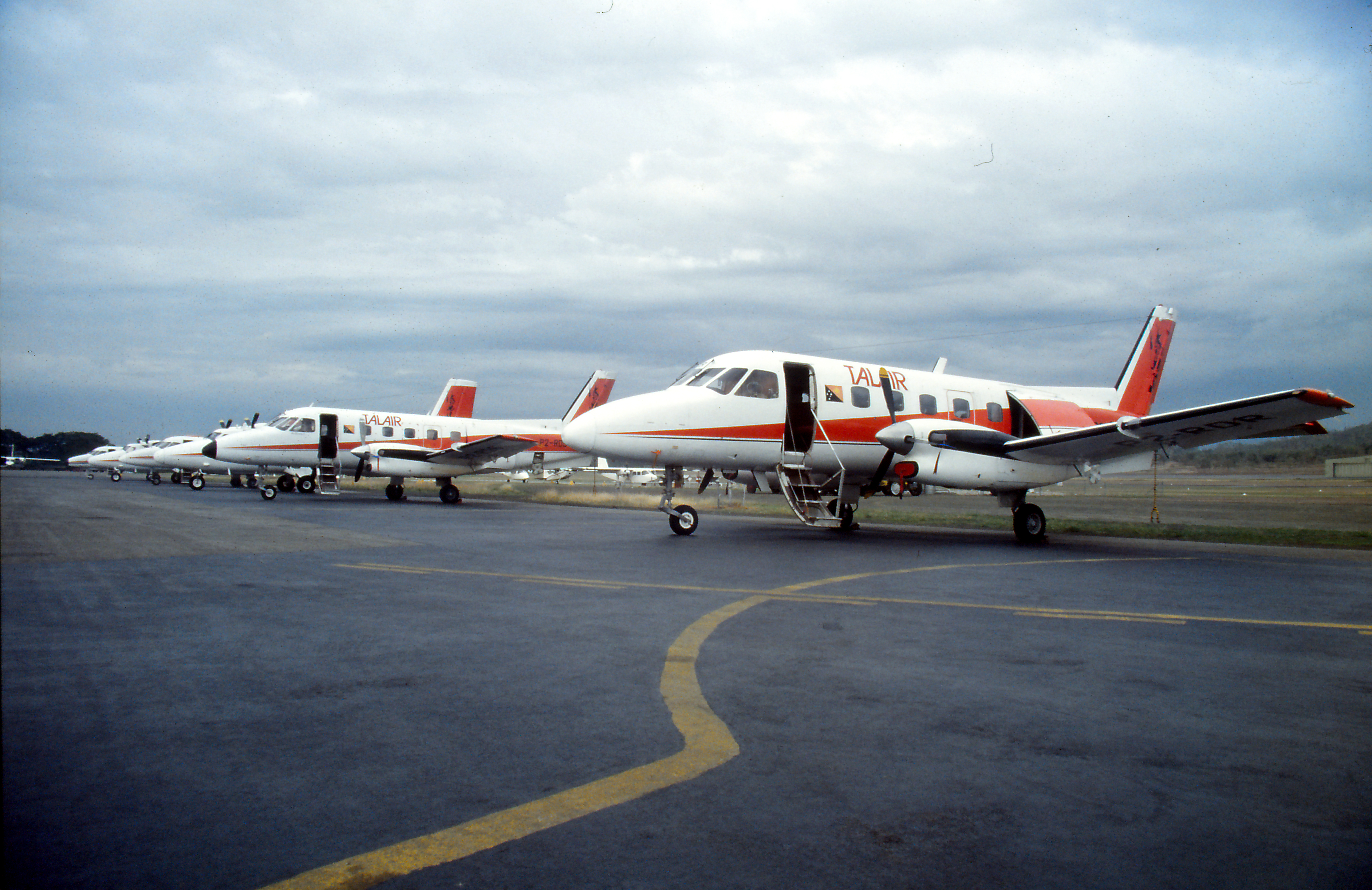 Talair EMB 110 and Twin Otter at Jacksons Airport